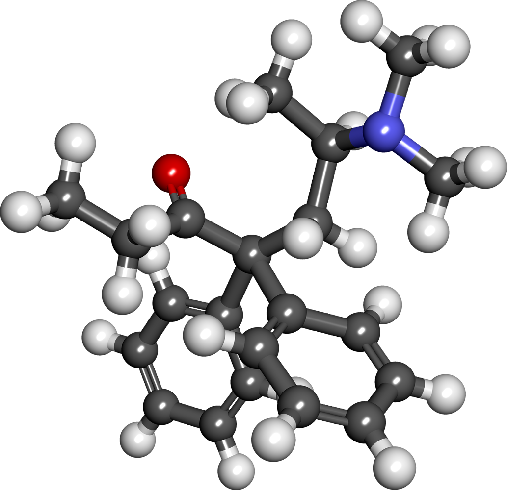 Ball and stick model of the methadone molecule.